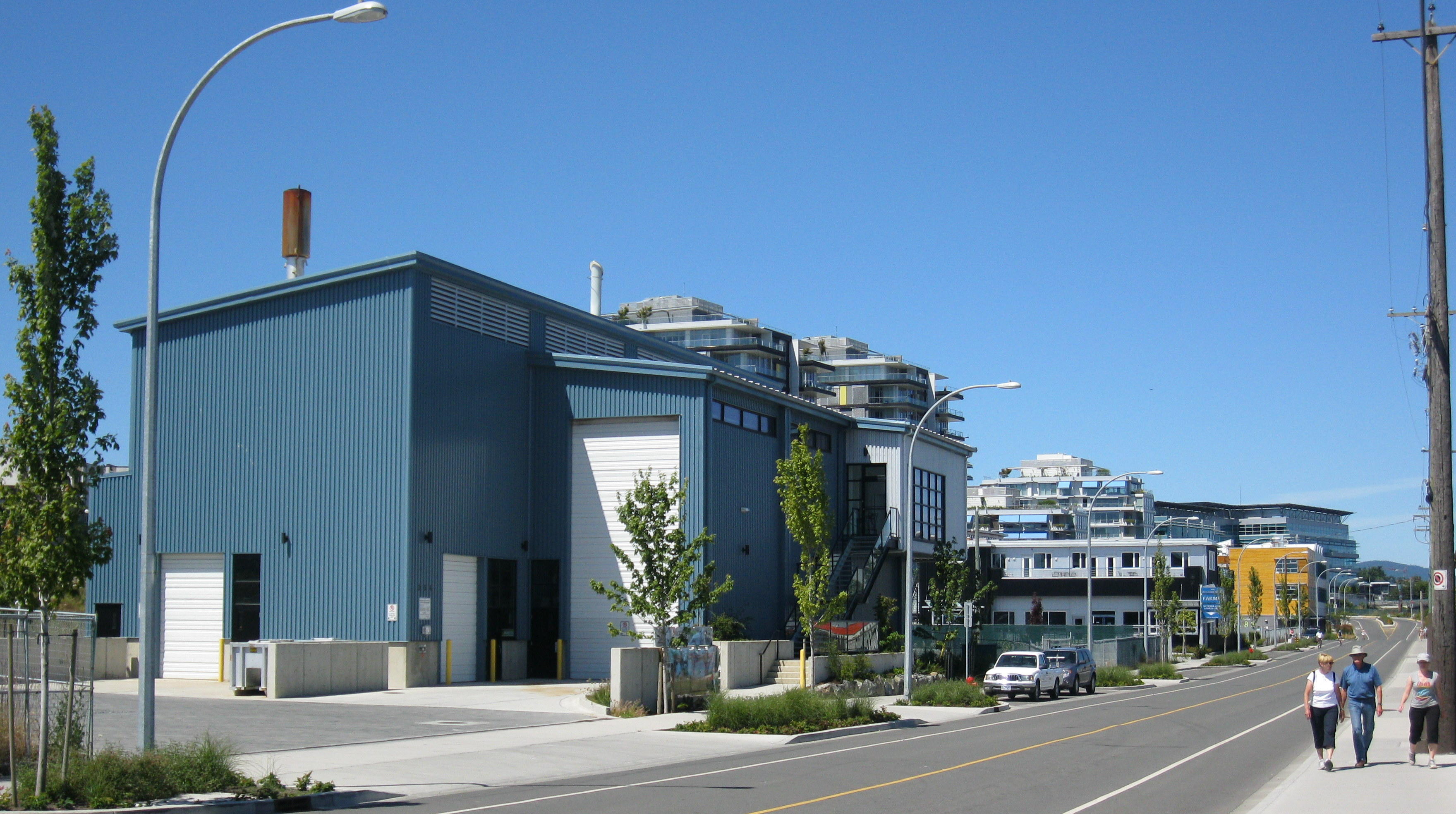 Biomass energy generator of Dockside Green. READ INFO IN PANORAMIO/COMMENTS